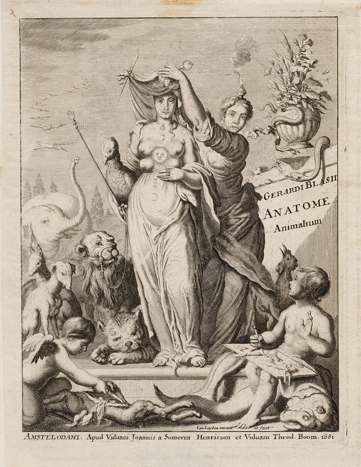 Frontispiece to the book Anatome Animalium by Gerhard Blasius. It shows a personification of science unveiling a personification of nature whose appearance is inspired by the classical goddesses Artemis and Isis.